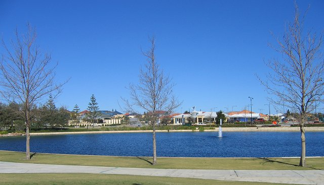 Parkland at Butler (Brighton) Photographed August 2005.